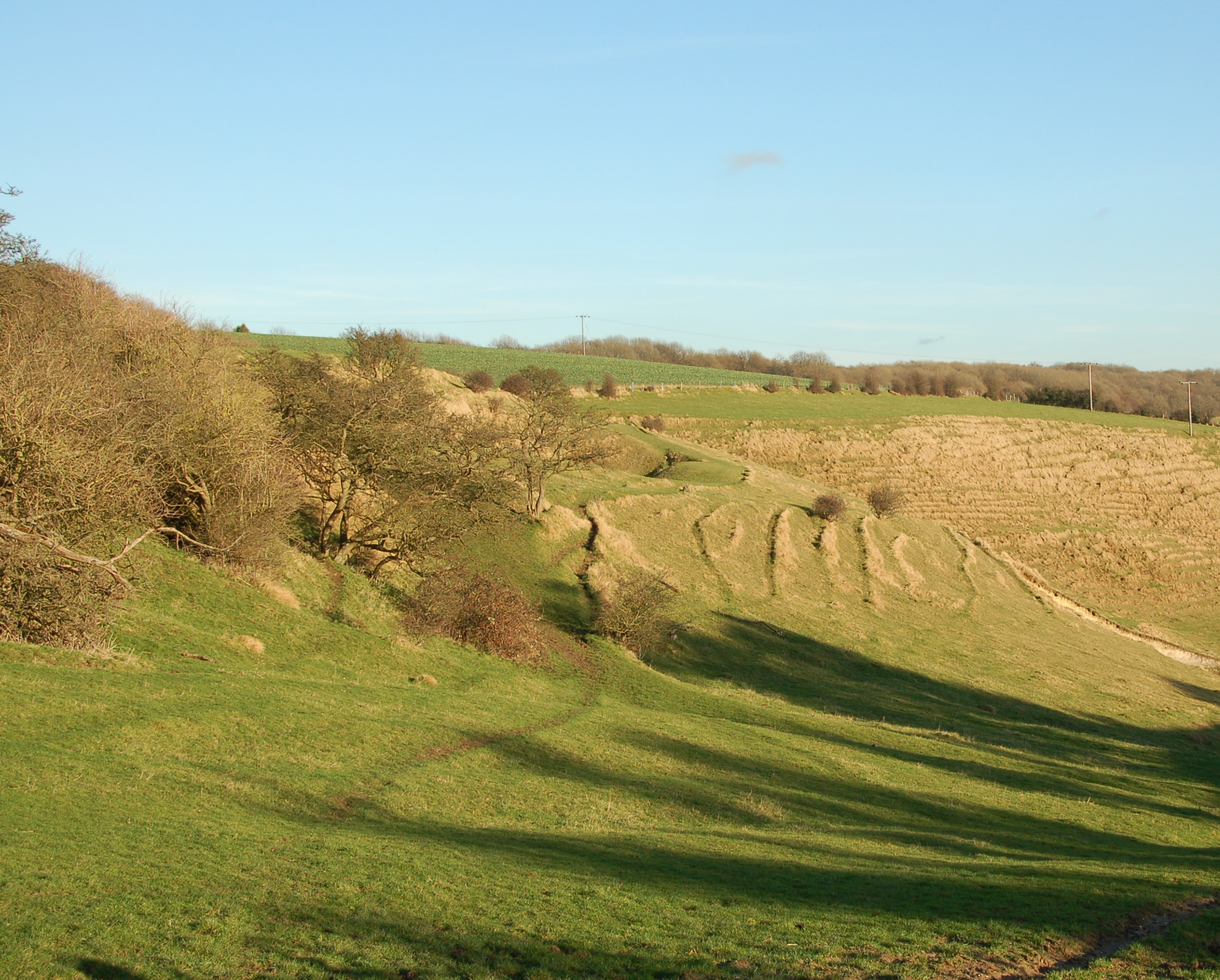 Description: Postling Downs Source: Self made Date: 16th July 2006